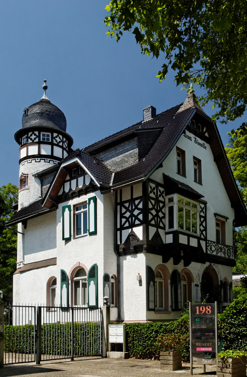 Houses Vionville in Düsseldorf-Golzheim, Germany